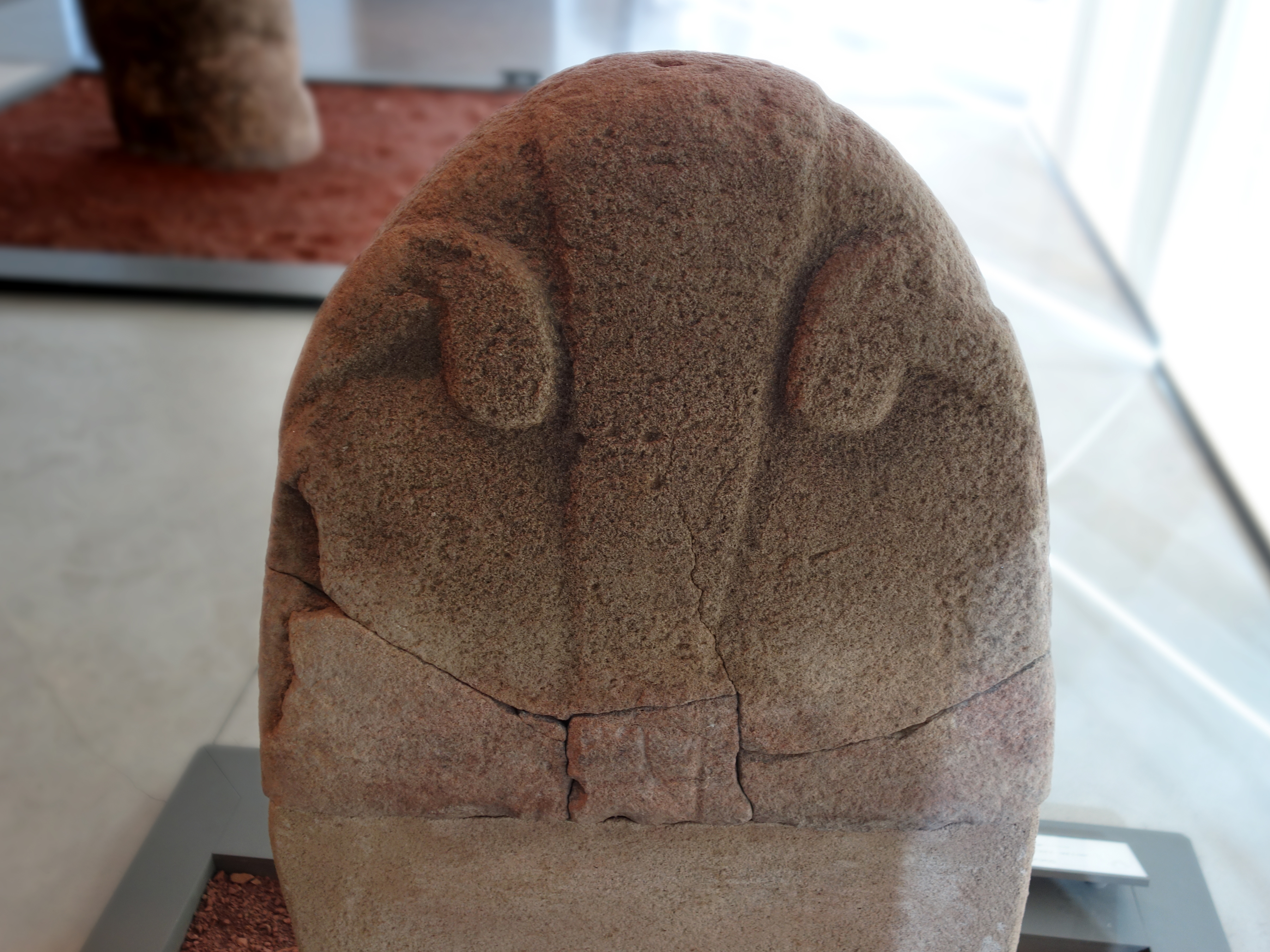 The menhir statue from Raffinie (Municipality of Martrin - Aveyron), discovered in 1880. Today, it remains only its upper part, the "head". Here hind sight, we can see the shoulder blades and what appears to be a hair in a ponytail.